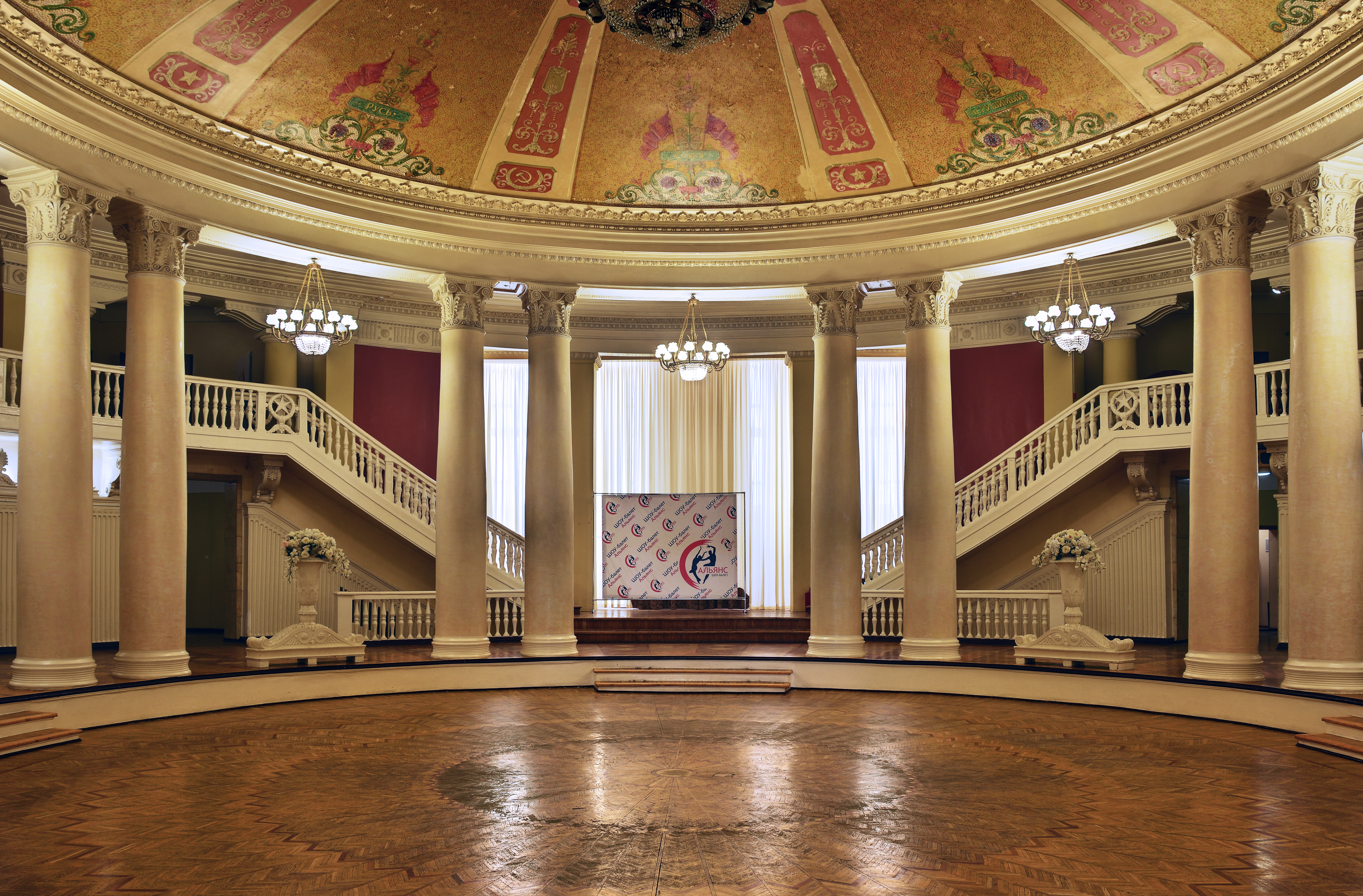 The interior of Palace of Culture of Nizhniy Tagil Iron and Steel Works, Sverdlovsk oblast, Russia